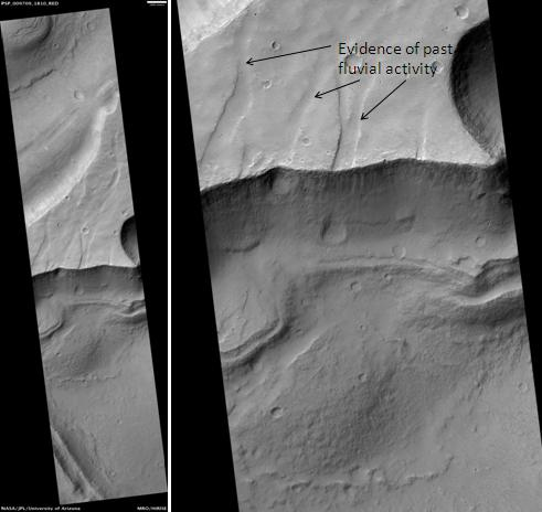 Hydraotes Chaos, as seen by hirise. Location is 1.1 North and 326.7 East. Scale bar is 1000 meters long. Image was taken by the Mars Reconnaissance Orbiter's HiRISE. The HiRISE camera was built by Ball Aerospace and Technology Corporation and is operated by the University of Arizona. Image courtesy NASA/JPL/University of Arizona.